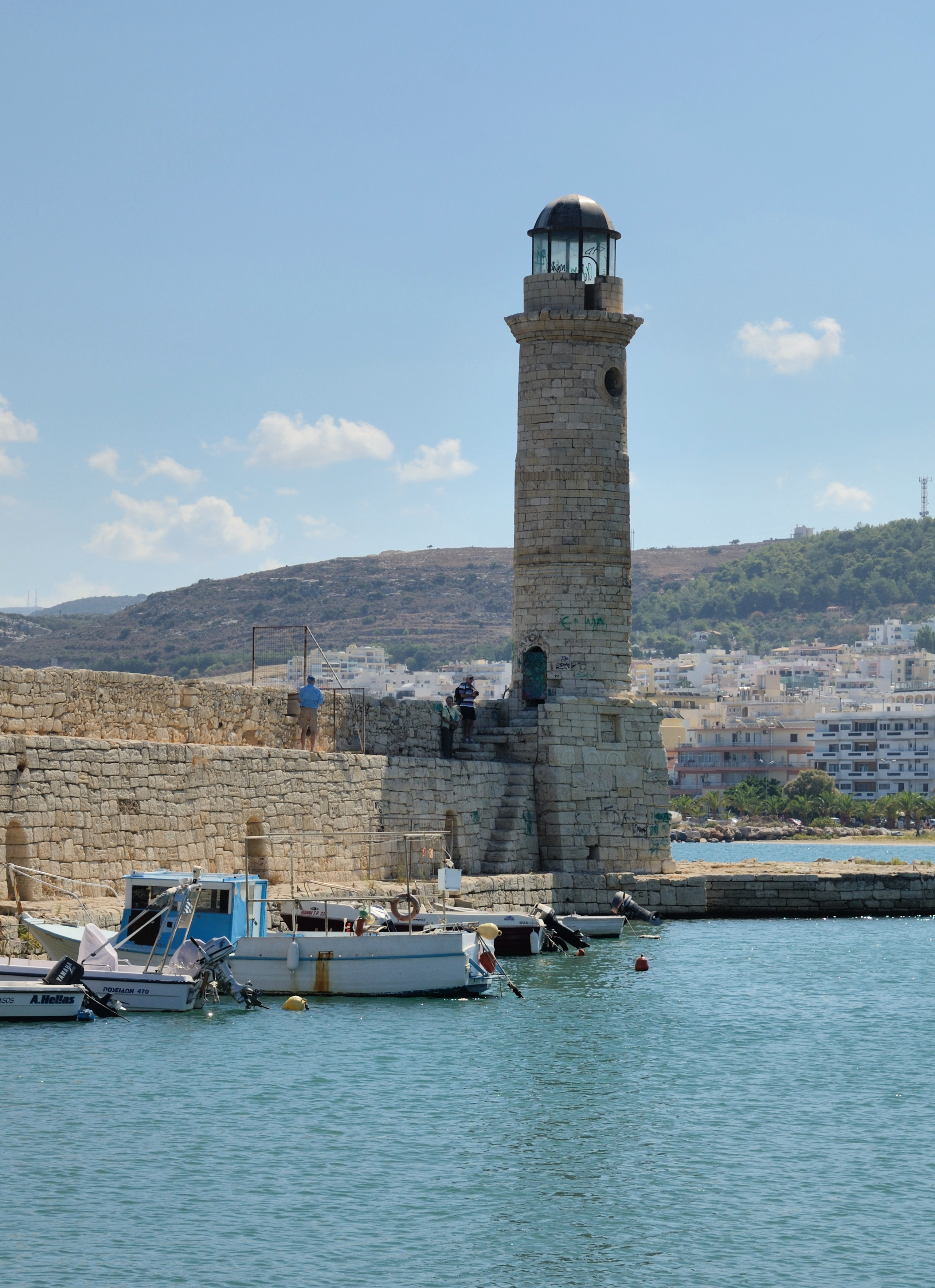 Rethymno: venetian harbour (lighthouse)